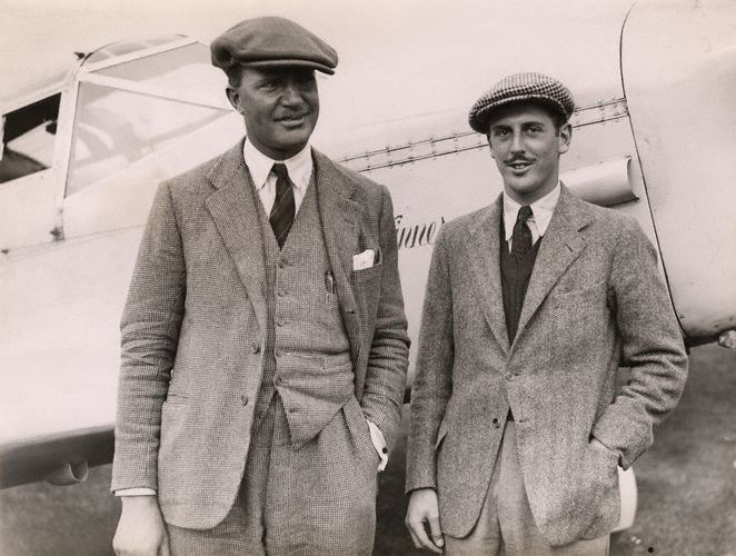 C.W.A. Scott and Giles Guthrie, standing in front of the Percival Vega Gull G-AEKE in which they won the Schlesinger Air Race.